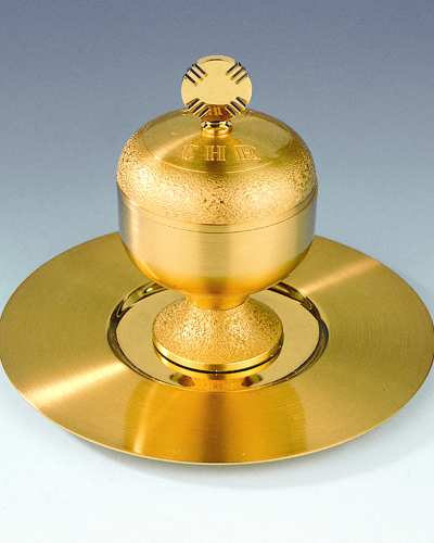 Gold vessel for chrysm